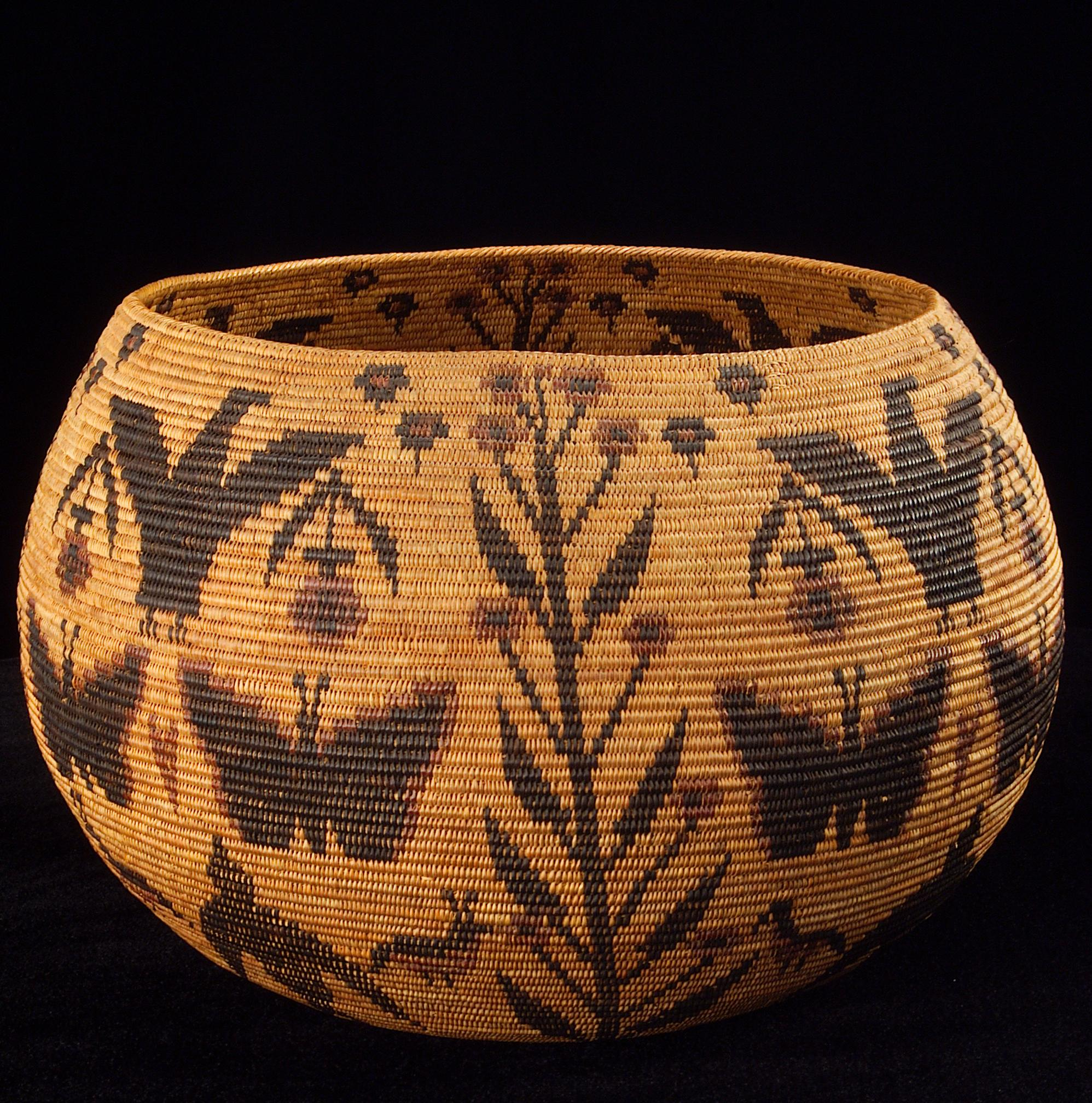 A basket woven by Miwok-Mono Paiute Native American artist Lucy Telles. active in the Yosemite Valley region, California. in the collection of the Smithsonian's National Museum of the American Indian